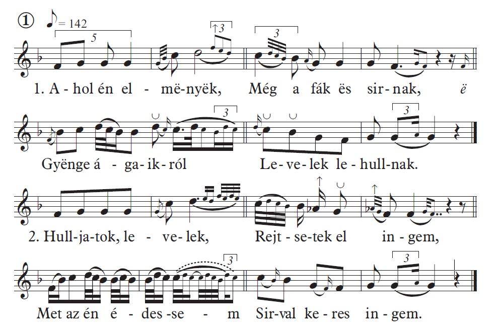 Csángăiasca-melodie uit Lespezi (Lészped), provincie Bacău, gezongen door Simon Ferenc Józsefné, met de meisjesnaam Fazakas Ilona (geboren 1897); verzameld door Pál Péter Domokos in juli 1932, getranscribeerd door Béla Bartók.